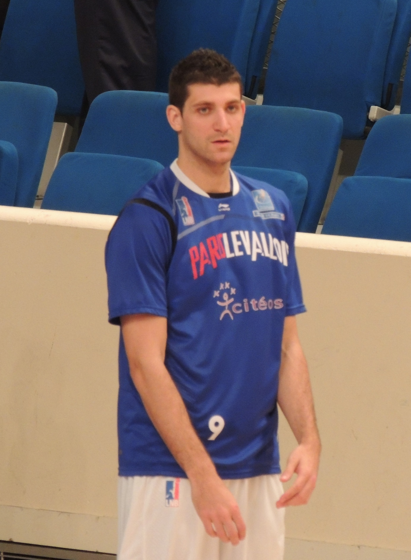 Antoine Diot warming up before Paris-Levallois-Le Havre match